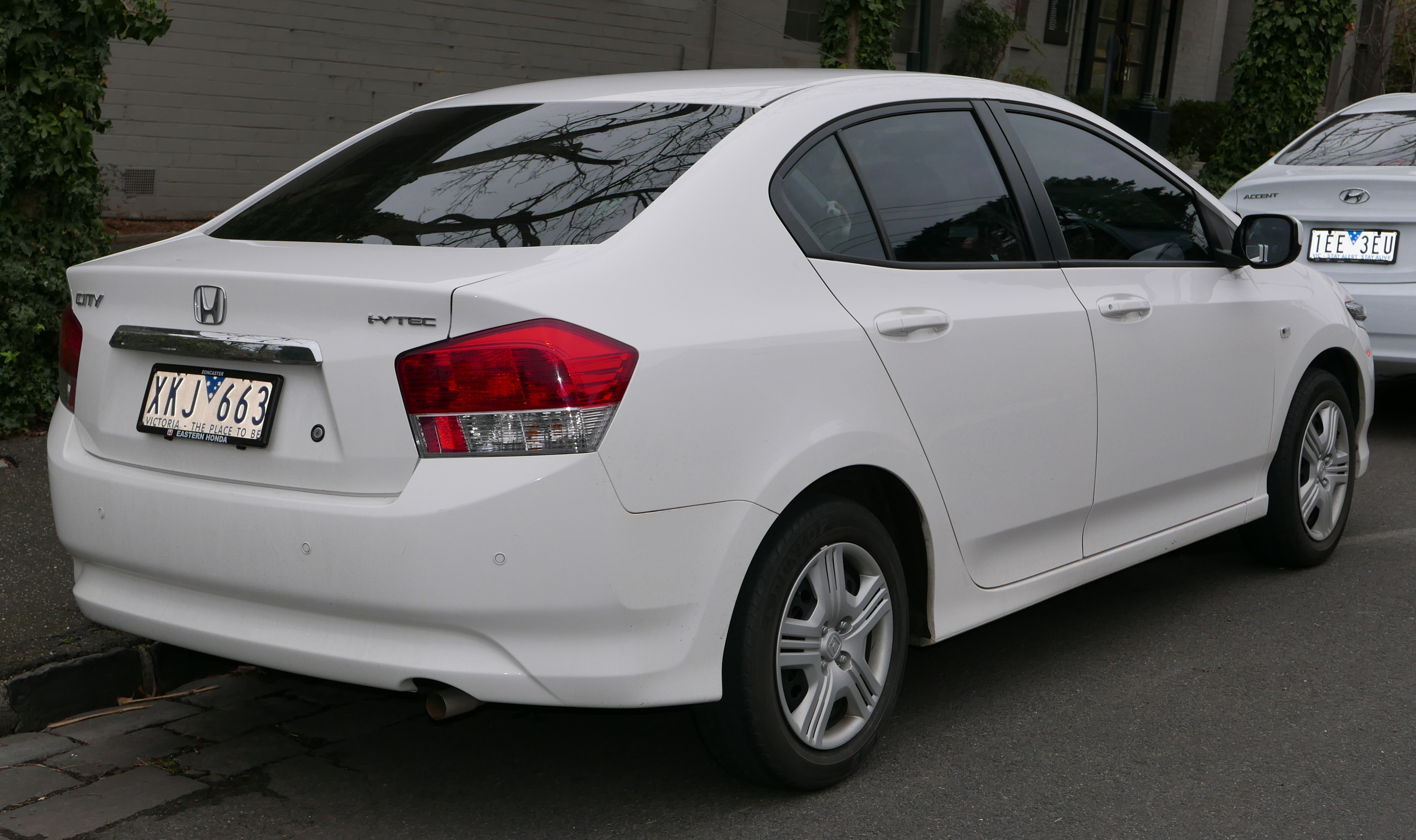 2009 Honda City (GM) VTi sedan. Photographed in Kew, Victoria, Australia. Vehicle registration enquiry resultsJurisdictionVictoriaRegistrationXKJ663Chassis codeMRHGM26409P051572Engine codeL15A71811885Compliance date2009-11Year of manufacture2009